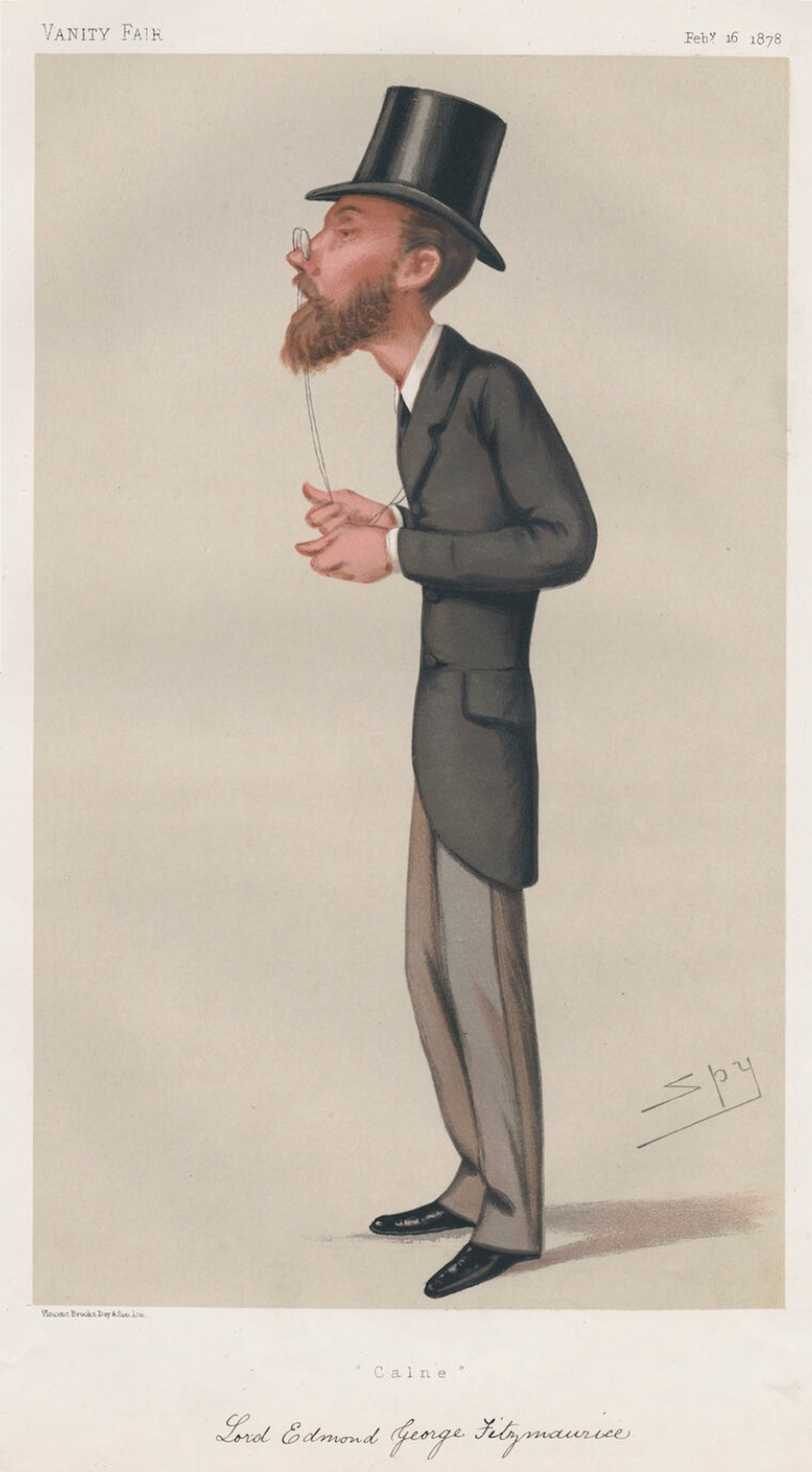 Statesmen No.266: Caricature of Lord EG Fitzmaurice MP. Caption reads: "Calne"